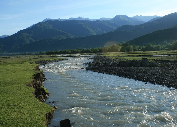 Mosque in Duisi